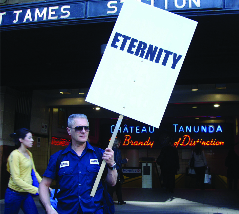 Performance Artwork